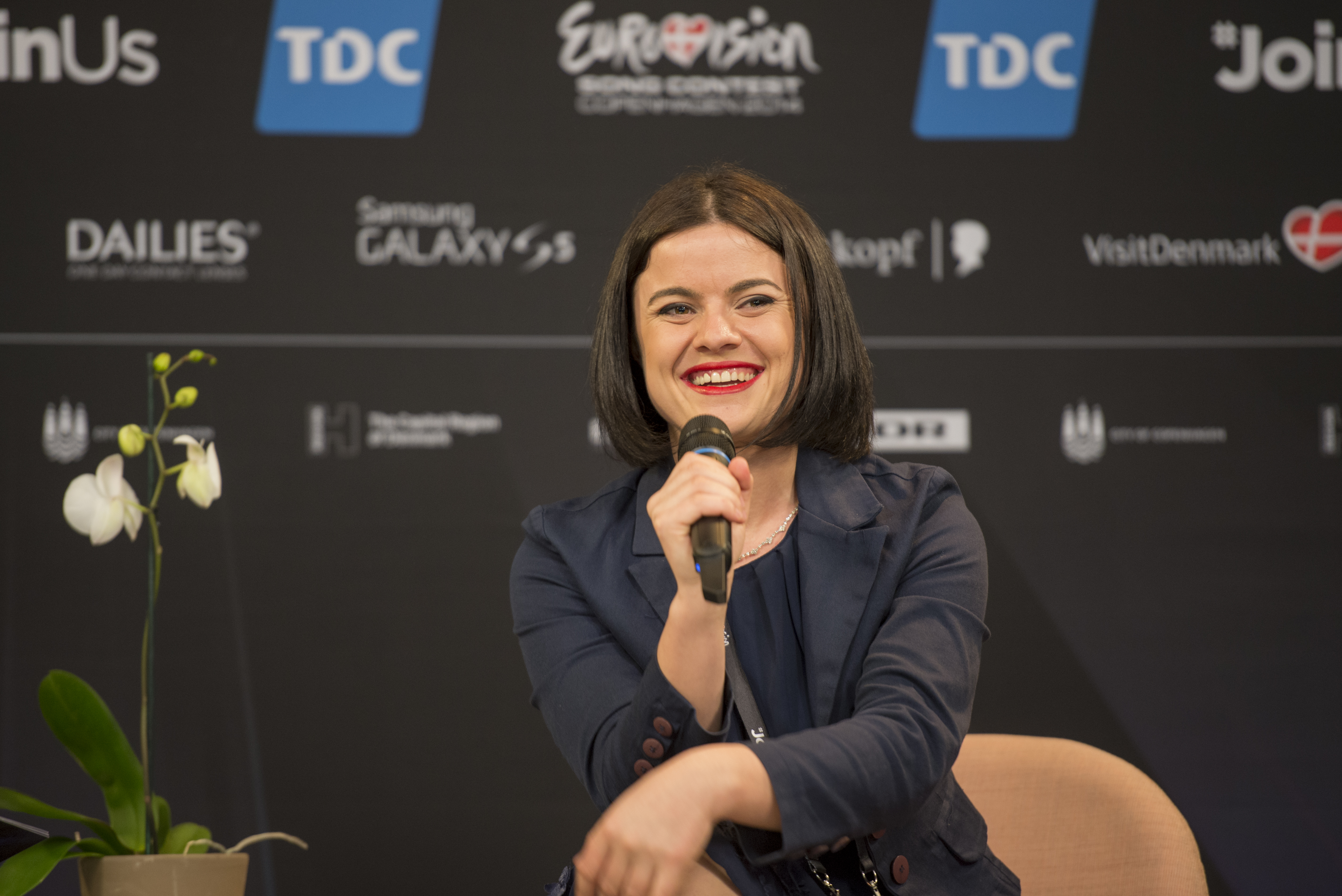 Herciana Matmuja at a Meet & Greet during the Eurovision Song Contest 2014 Copenhagen. (Help translate this text)